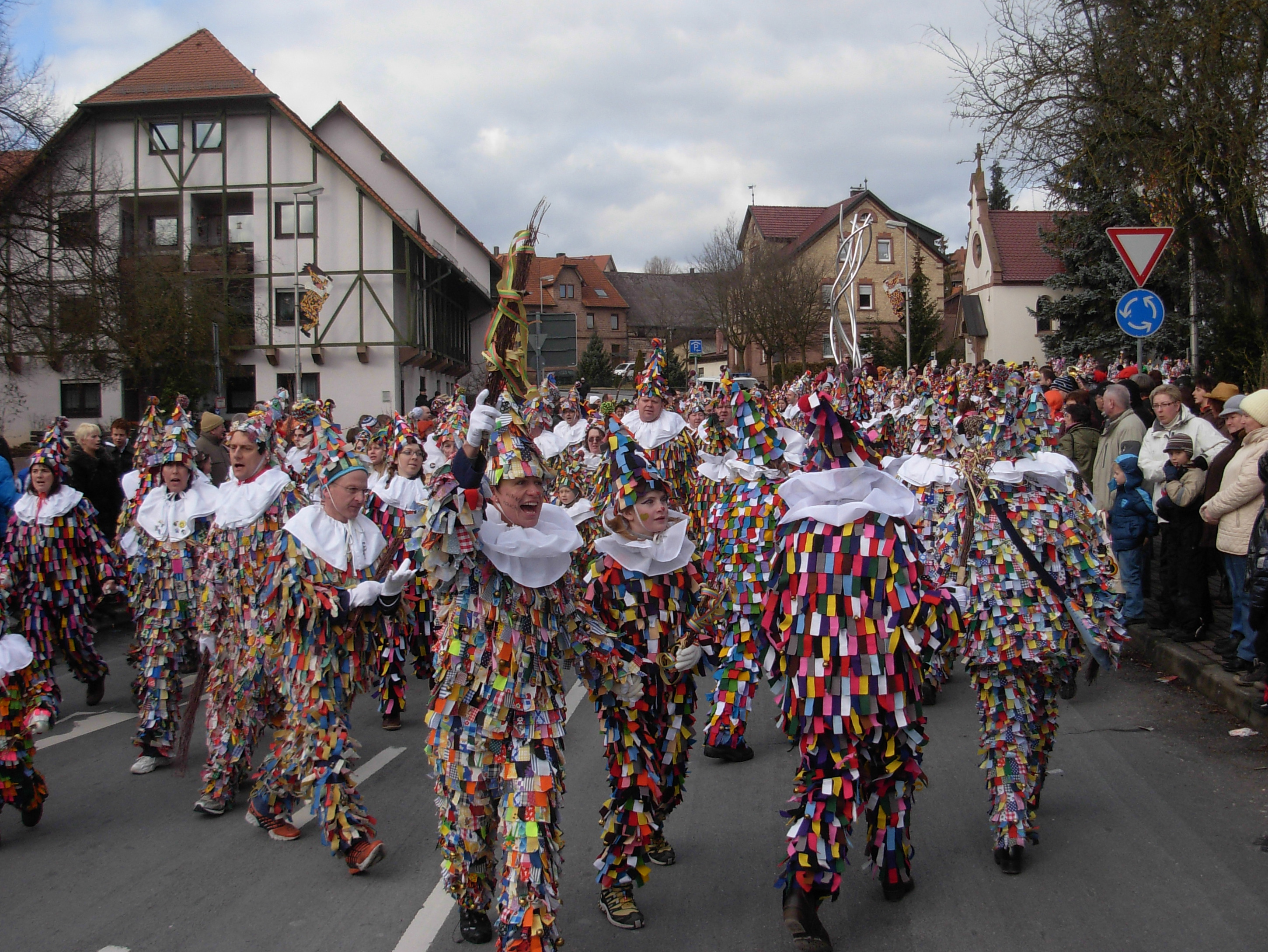 Huddelbaetz costumes, carnival in Buchen (Odenwald), Germany